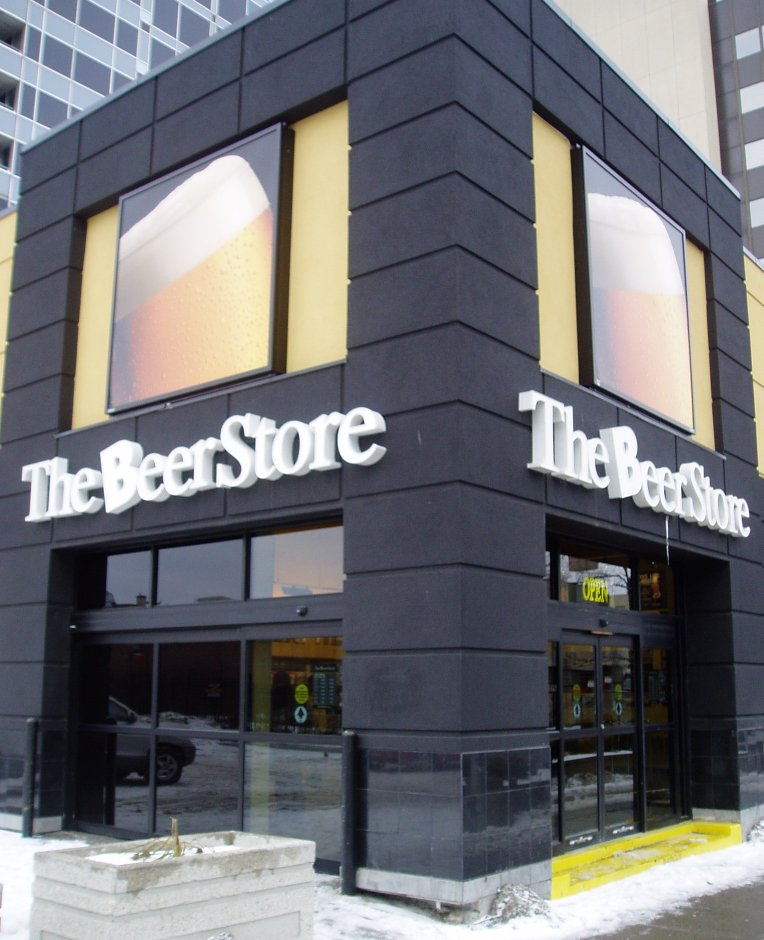 A The Beer Store shop